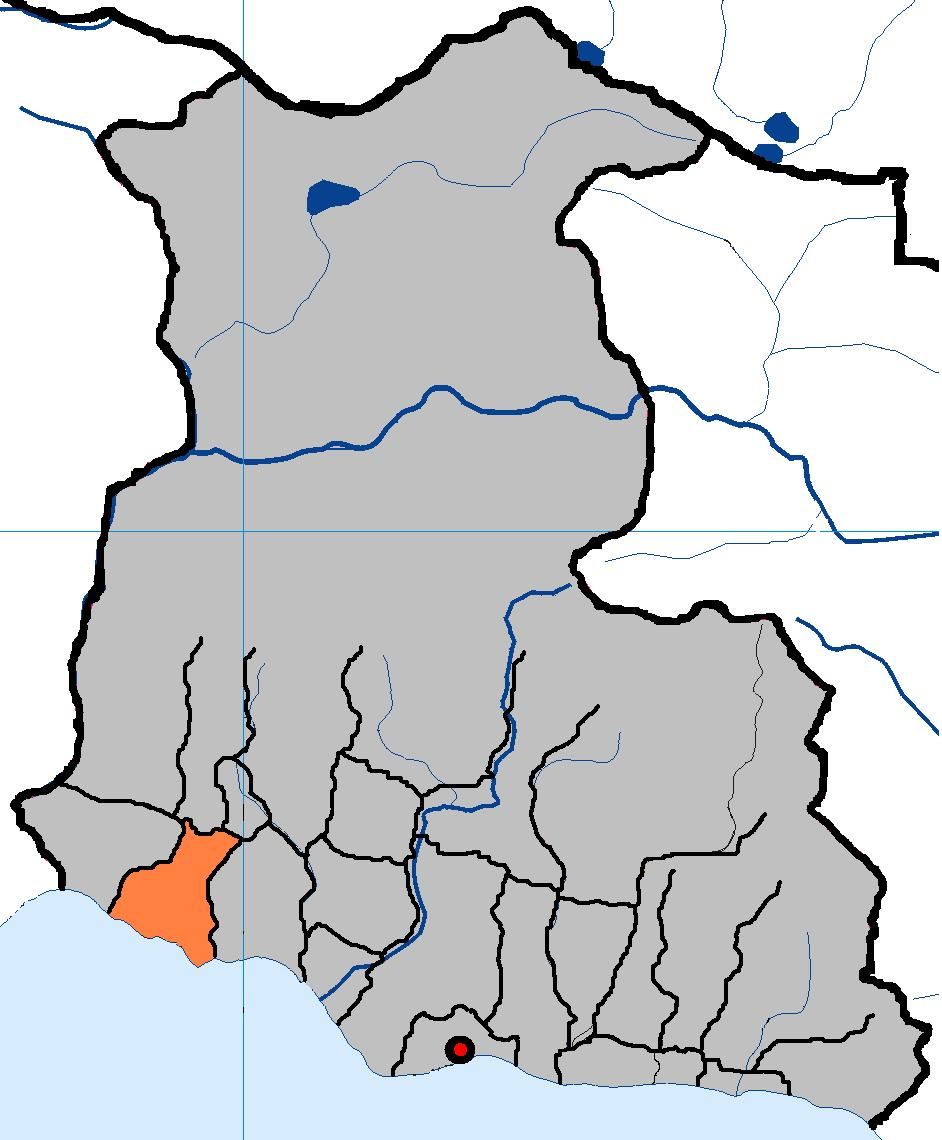 Map showing the location of the village Mysra in Abkhazia.